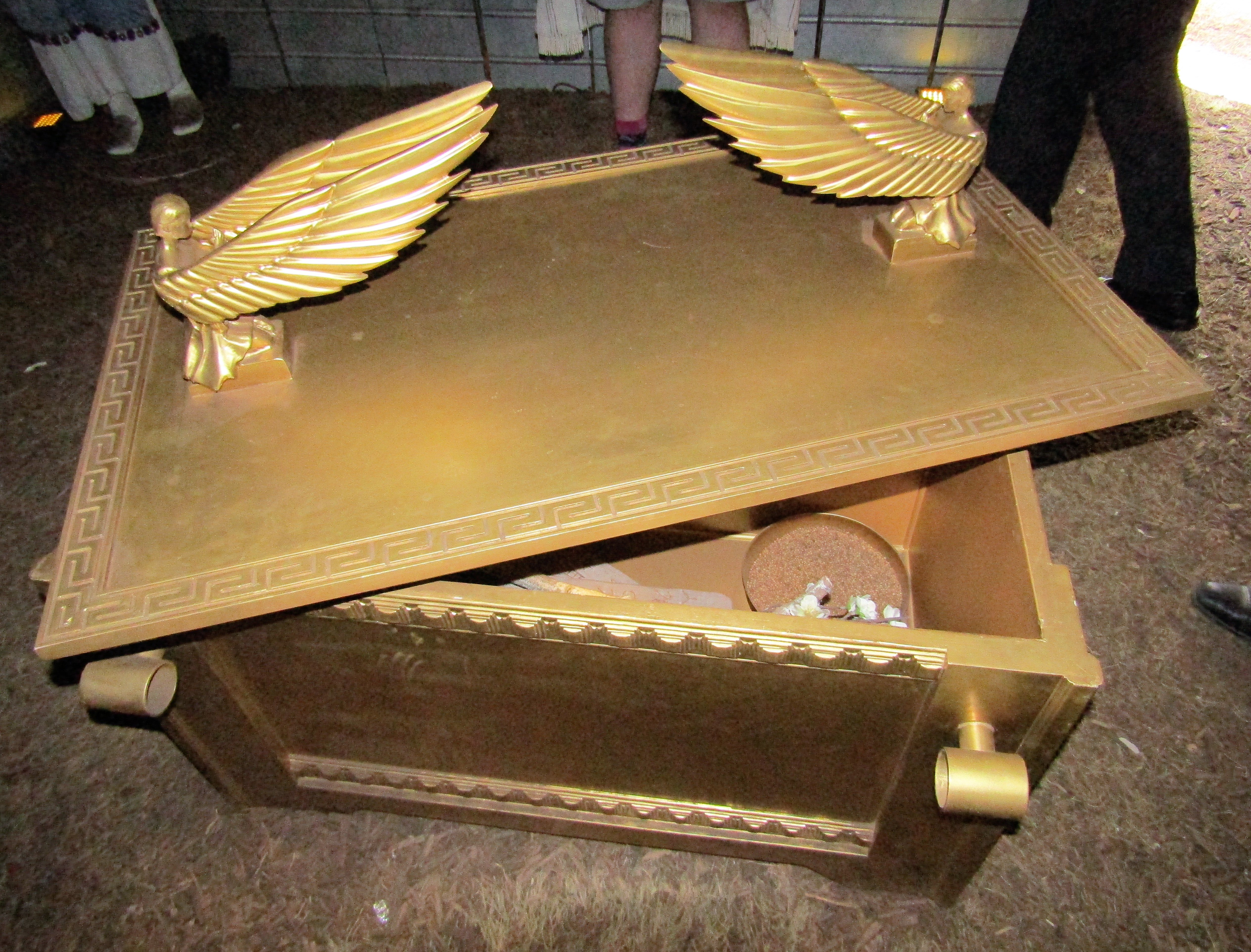 Ark of the Covenant for the Tabernacle replica at BYU.